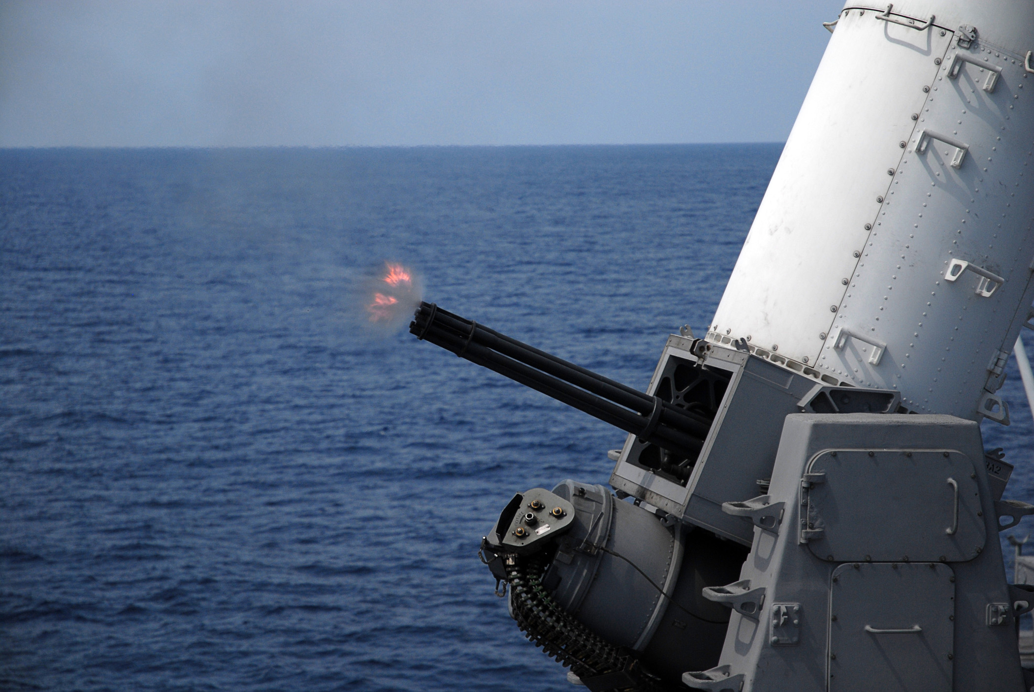 A firing Phalanx CIWS